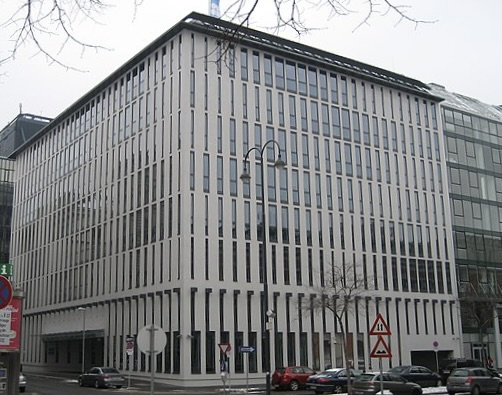 the new OPEC headquarters in Vienna